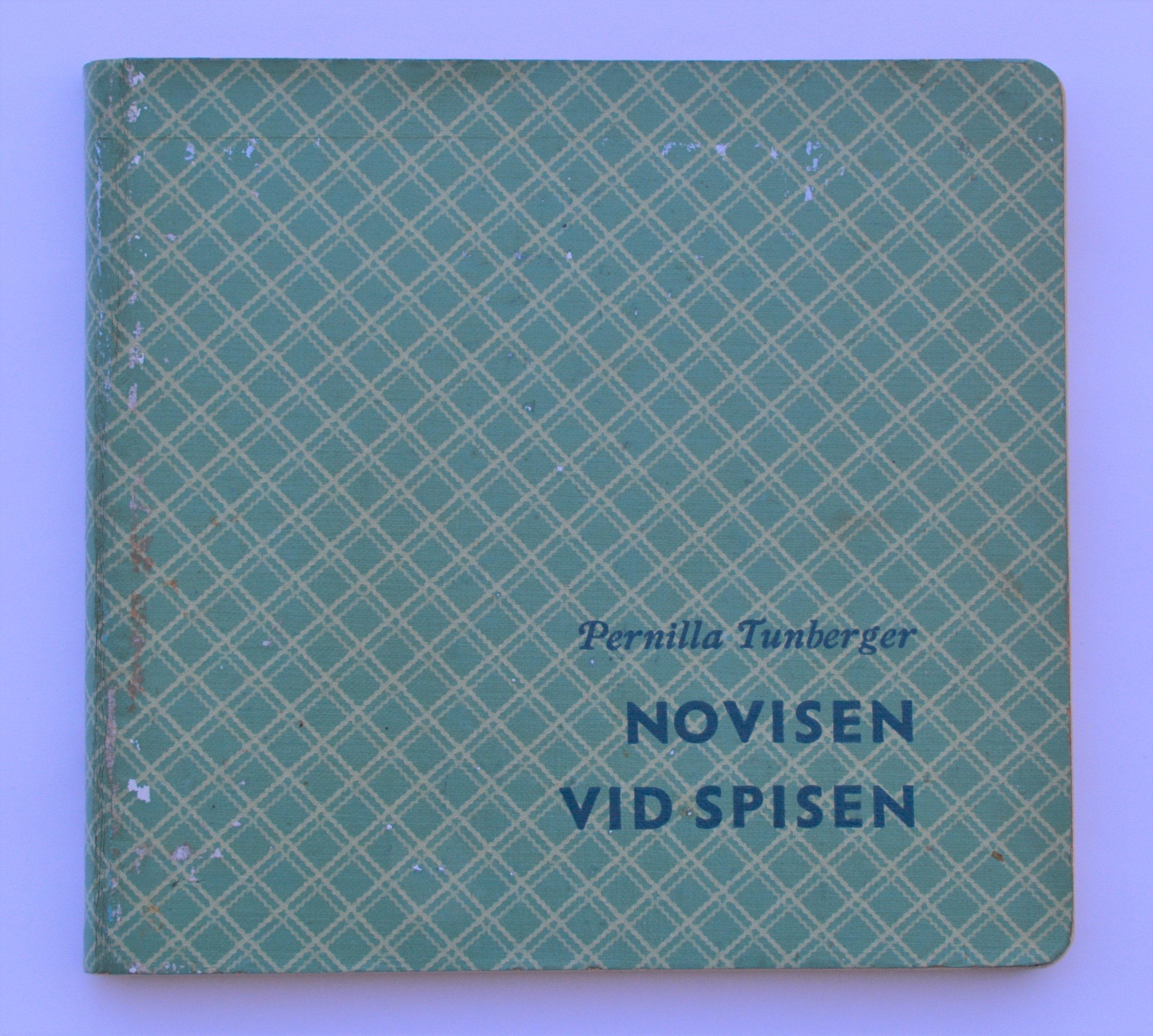 Oilcloth book cover. Oilcloth from Svenska Vaxduksfabriken, Anneberg, Sweden, 1951